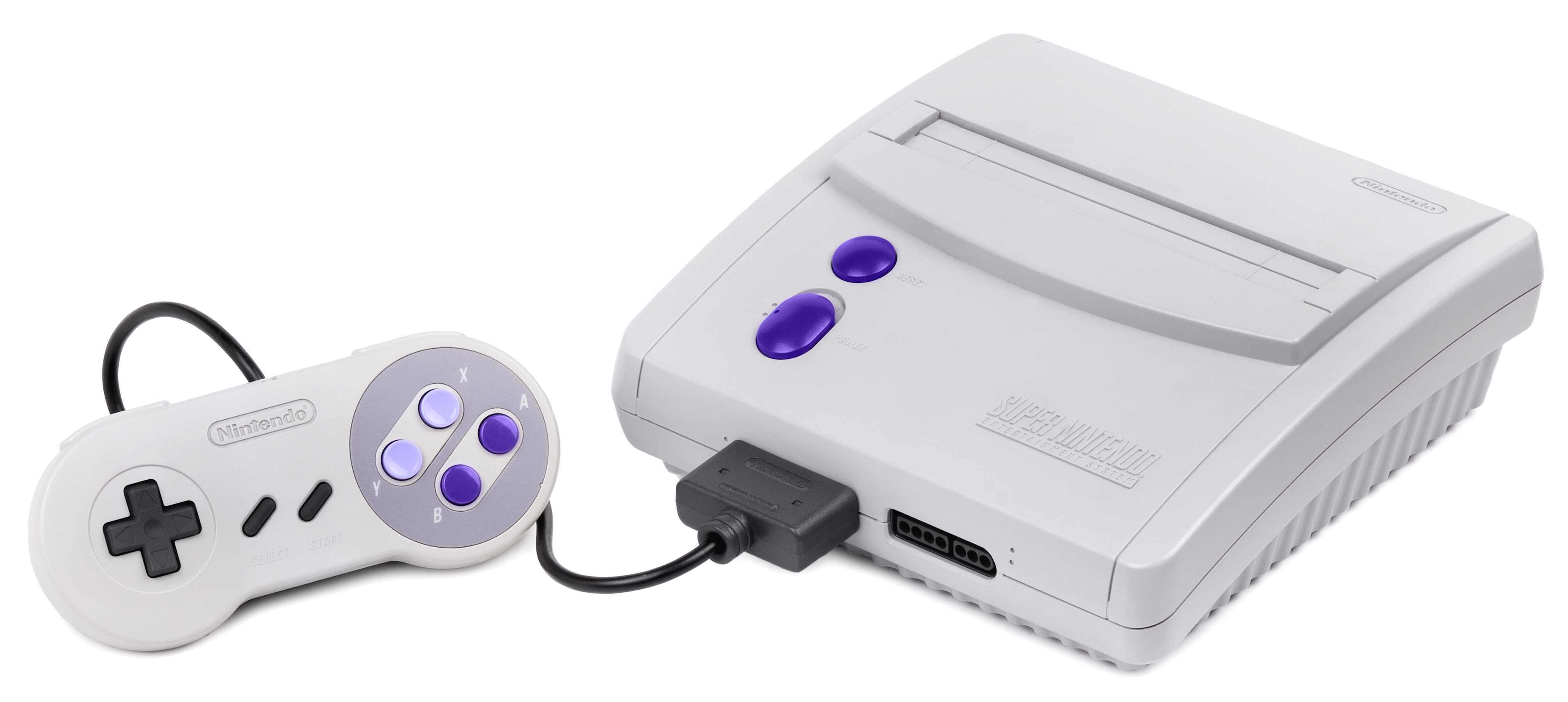 A North American Super Nintendo. This is the second model released as "SNS-101."